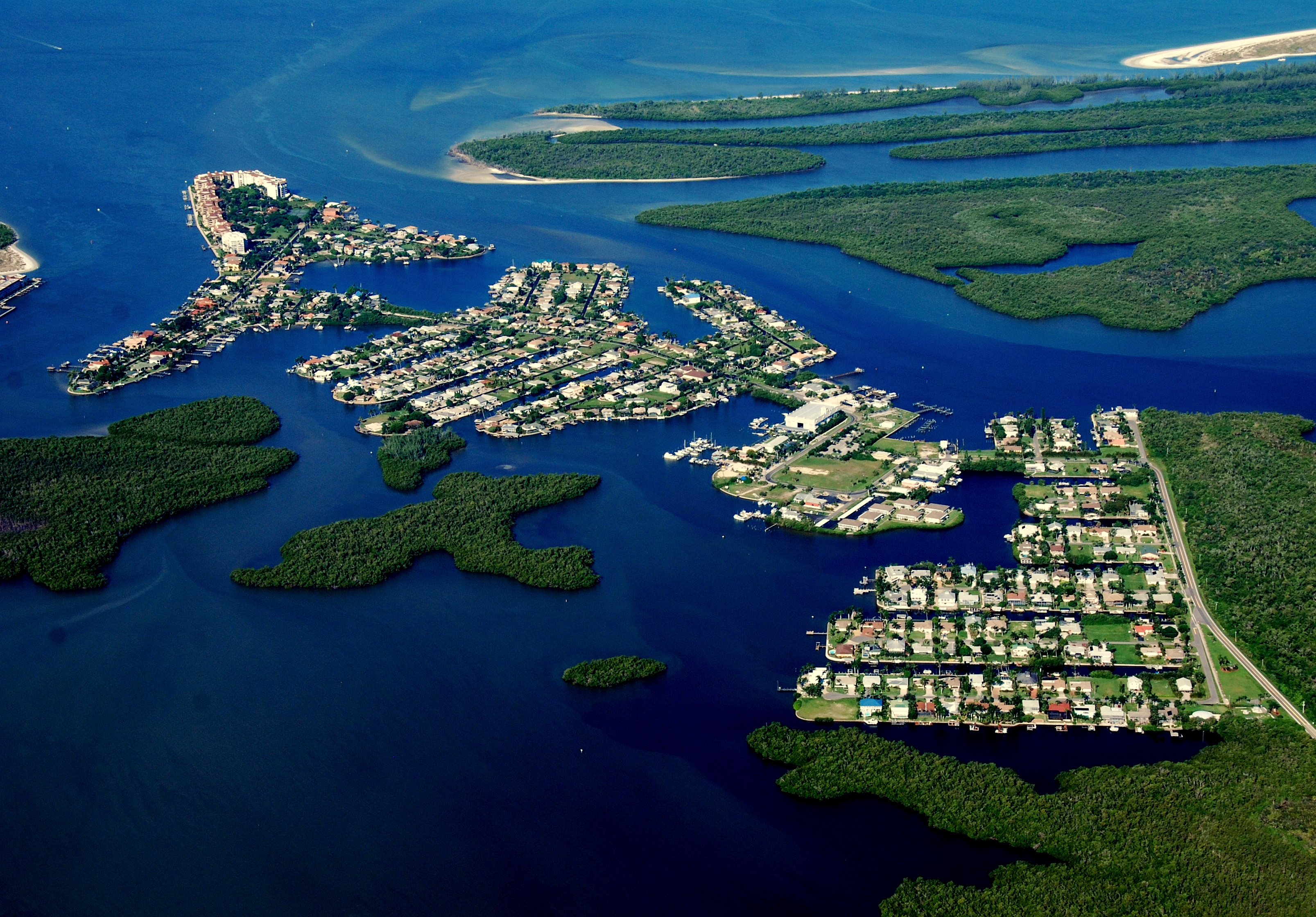 Aerial photograph